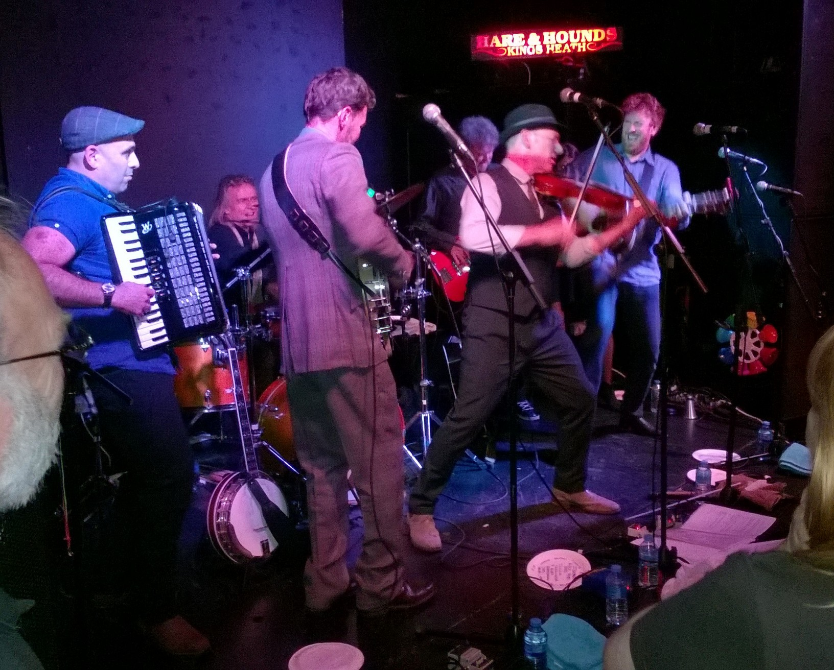 Police Dog Hogan live on stage. I took the photo myself.